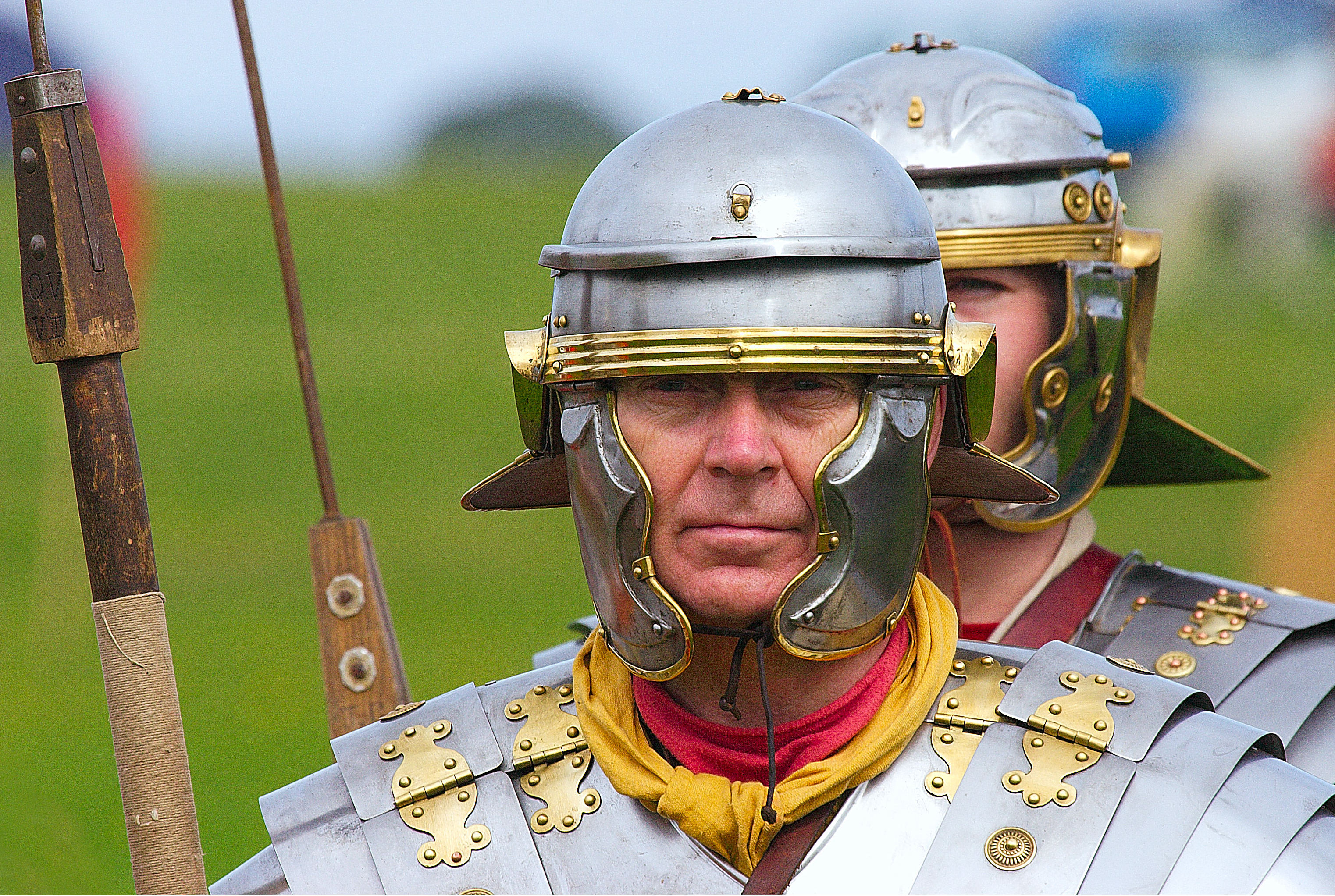 Image taken at the display of Roman Army Tactics Scarborough Castle UK Aug-07